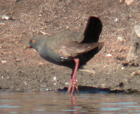 Black-tailed Native-hen, (Gallinula ventralis) Gatton College, SE Queensland, Australia